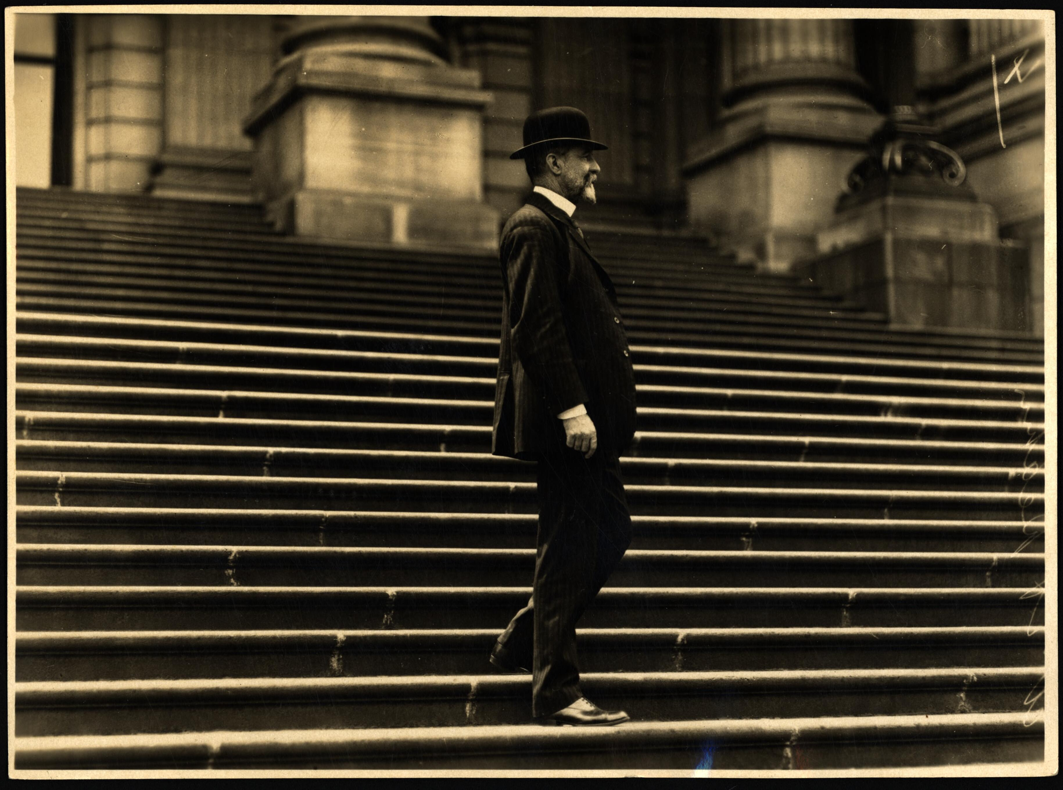 Photograph of Alfred Deakin leaving Parliament House, Melbourne, after his final Commonwealth Liberal Party meeting as party leader.